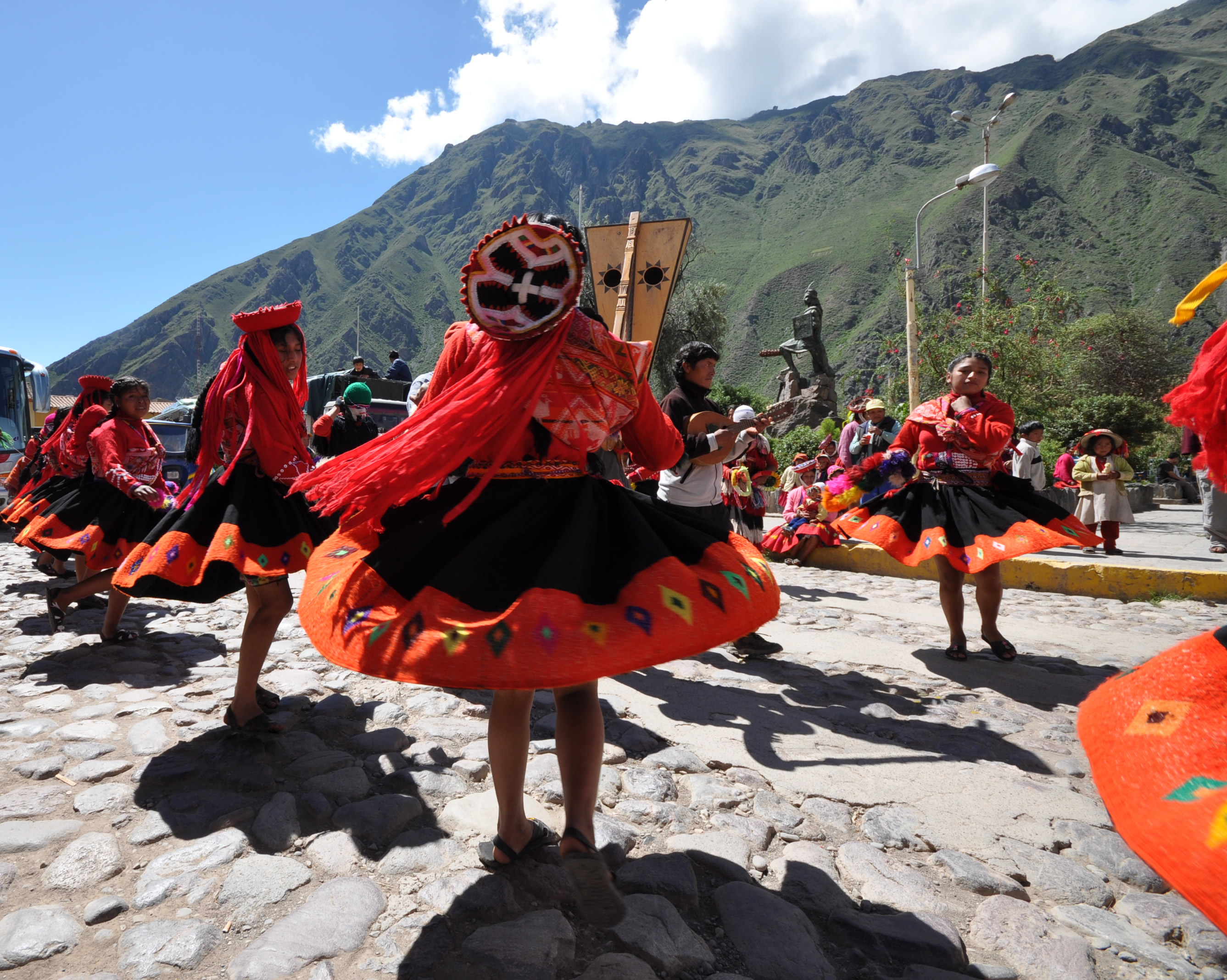 Epiphany (Greek for "to manifest" or "to show"), is a Christian feast day which celebrates the revelation of God in human form in the person of Jesus Christ. Epiphany falls on January 6. Many of the Eastern Churches use the traditional Julian Calendar, while other Christian churches follow the modern Gregorian Calendar. January 6 on the Julian Calendar falls on the Gregorian Calendar's January 19. Western Christians commemorate the visitation of the Biblical Magi to the child Jesus on this day, i.e., his manifestation to the Gentiles. Eastern Christians commemorate the baptism of Jesus in the Jordan River, his manifestation to the world as the Son of God. It is also called Theophany, especially by Eastern Christians